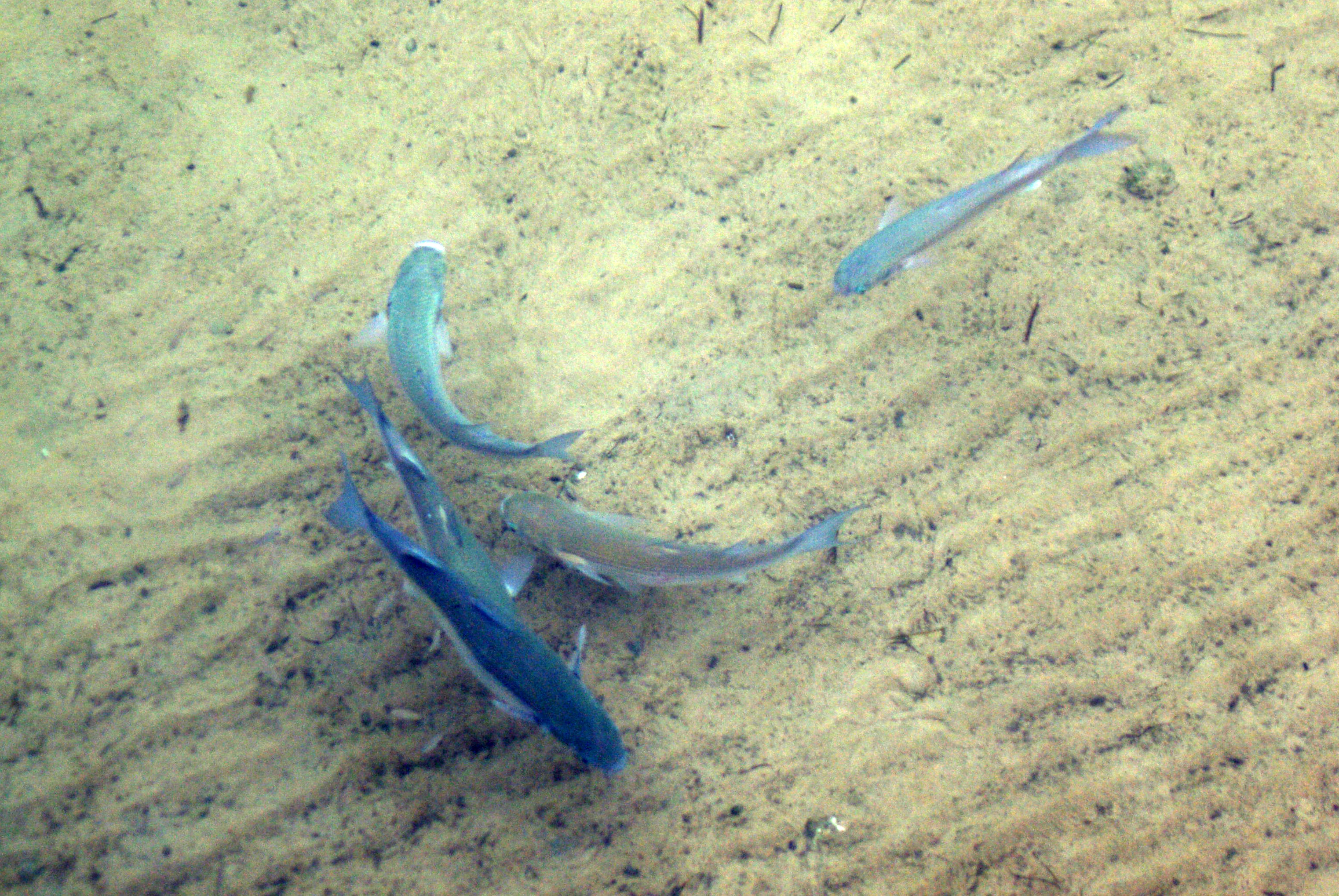 Thicklip grey mullet (Chelon labrosus) in Santoña´s beach, (Spain)